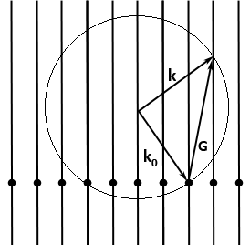 Ewalds sphere construction in the case of a 2D lattice